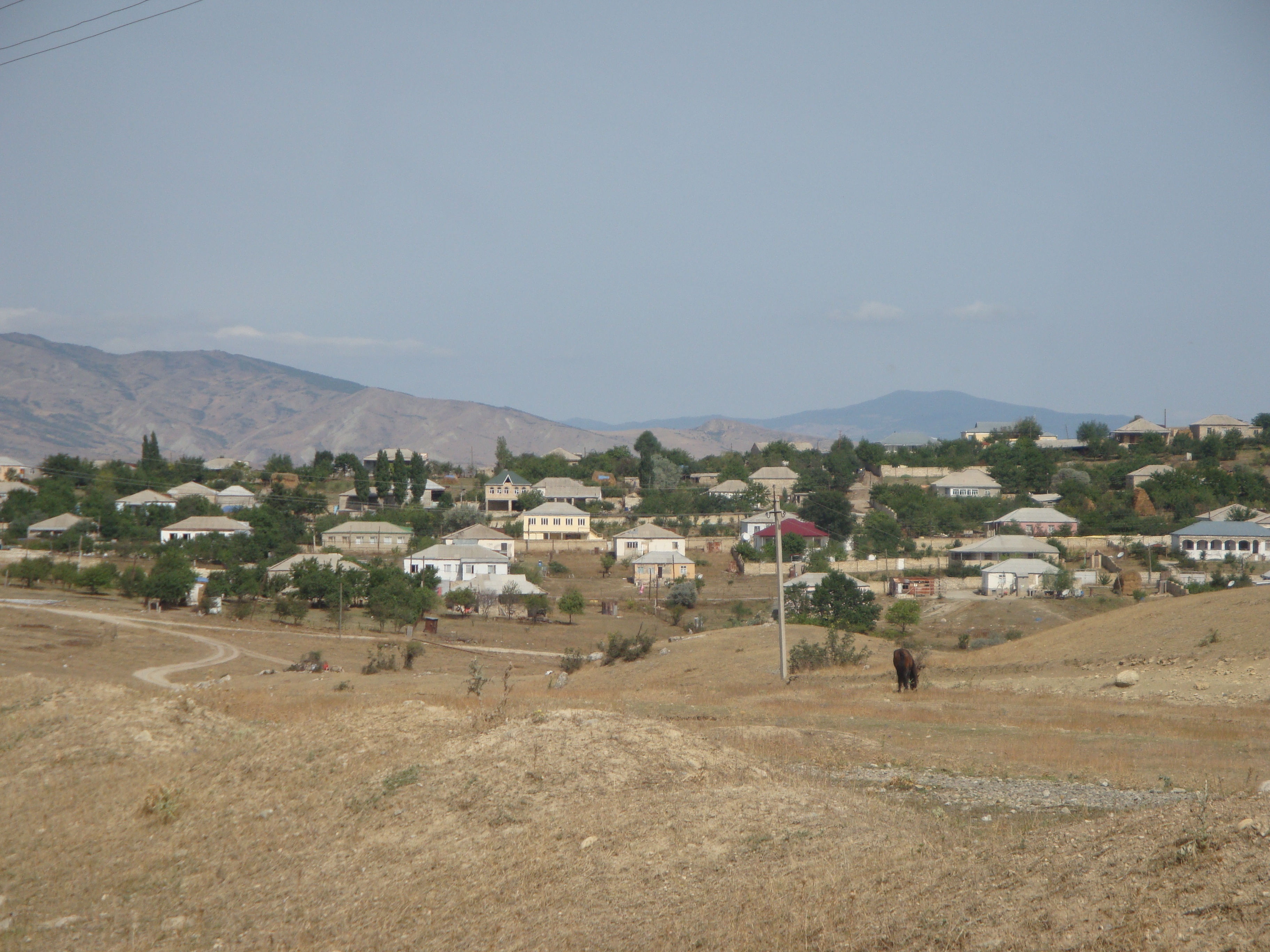 Khizi town in Azerbaijan